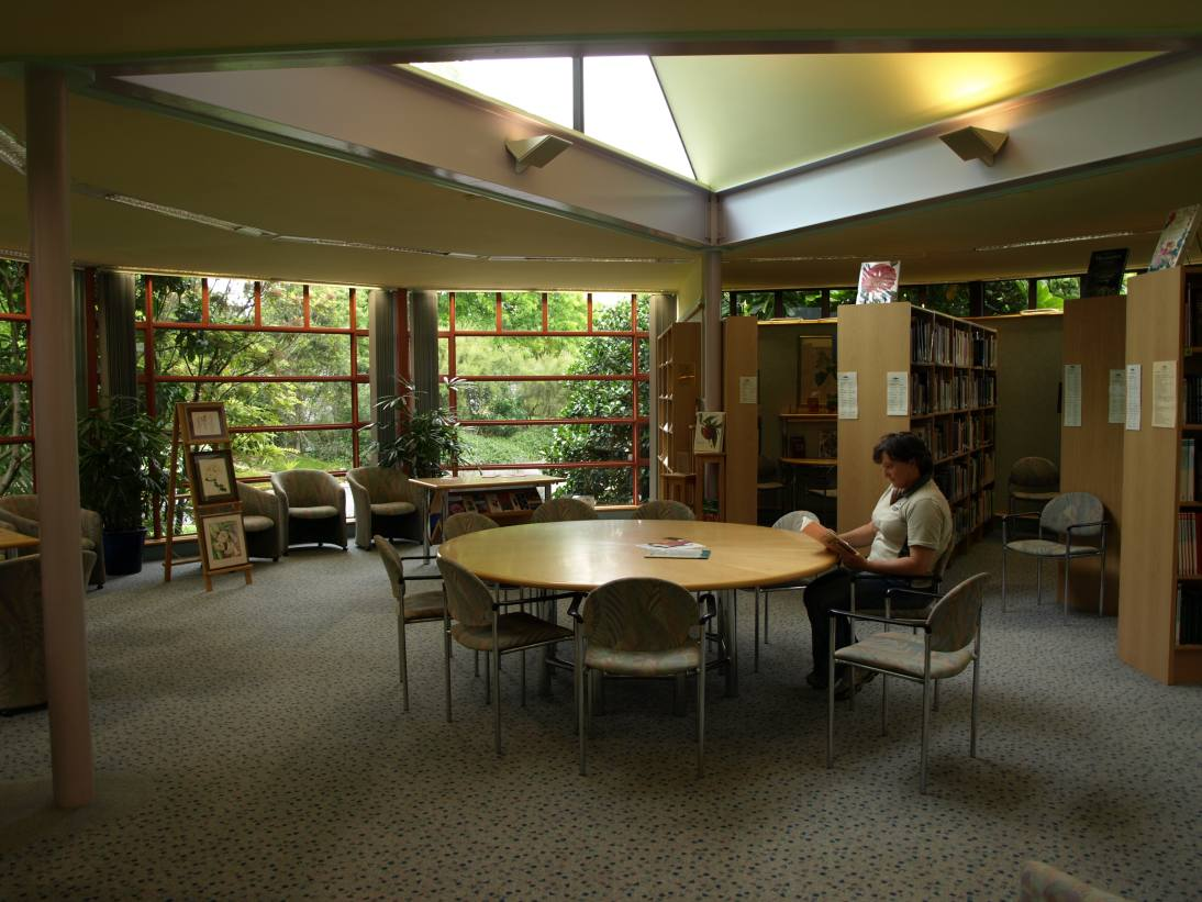 Auckland Botanic Gardens, interior of the library Image info Location/Date Auckland Botanic Gardens, Manurewa, Auckland, New Zealand, 2008/11/10 Taken with Olympus E-410 Original picture 3648x2736 pixels Photographer Dick Bos Conditions Please inform the photographer before using this image outside Wikimedia. Licensing